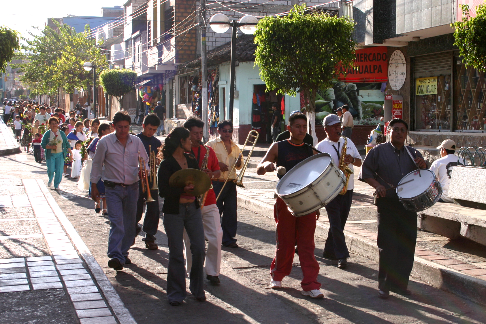 Procession in honour of patron Nuestra Señora del Rosario de Agua Santa (Our Lady of the Rosary of the Holy Water) in Baños, Ecuador. October 2005.